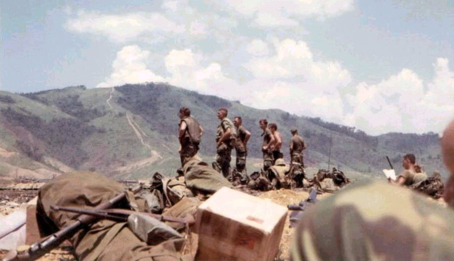 Original Caption: The men on the hill are of the 3/3 headquarters group. From left to right is the Forward air controller, next the battalion CO Lt. Col. Schultz, I believe, next the Sgt. Maj. The picture was taken at Vandegrift Combat Base (VCB) also known as LZ Stud. Date Taken: Early 1969 Place Taken: LZ Stud Photographer: Larry Polstra